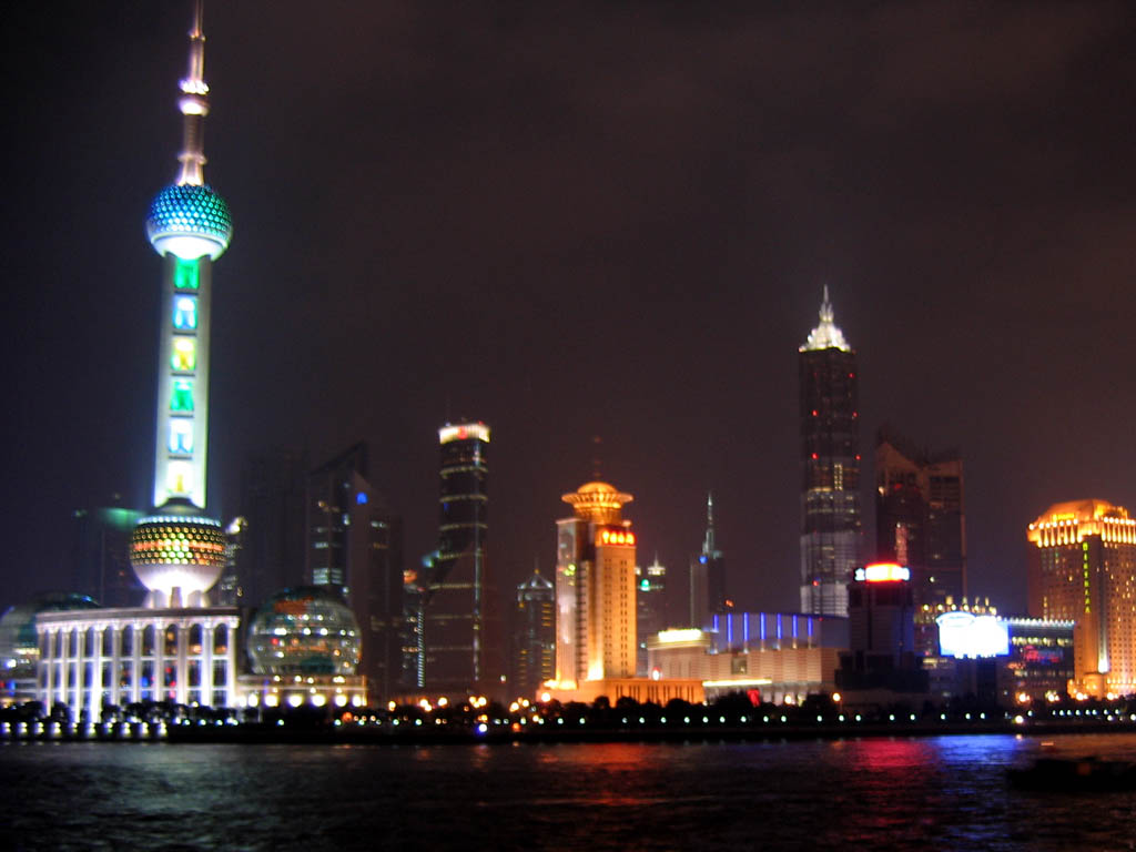 The Pudong skyline, as seen from the Bund, on Christmas Eve.